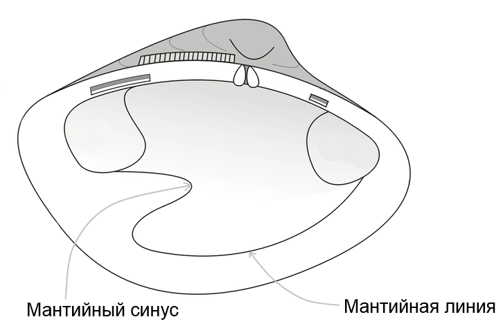 Internal view of valve